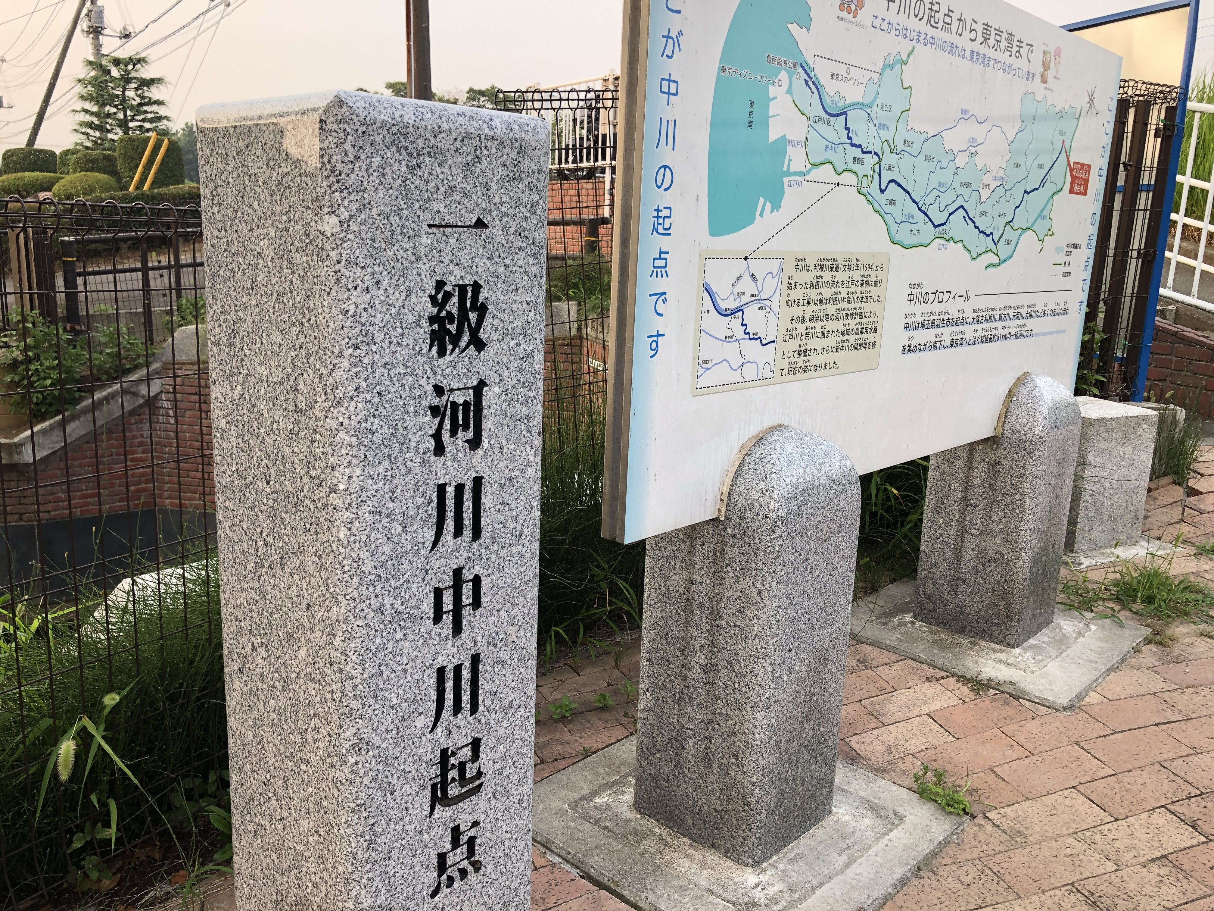 Nakagawa River Starting Point (Hanyu city)